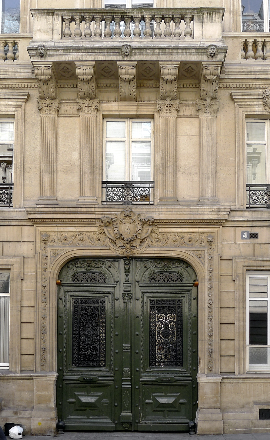 Saint-Florentin street - Paris